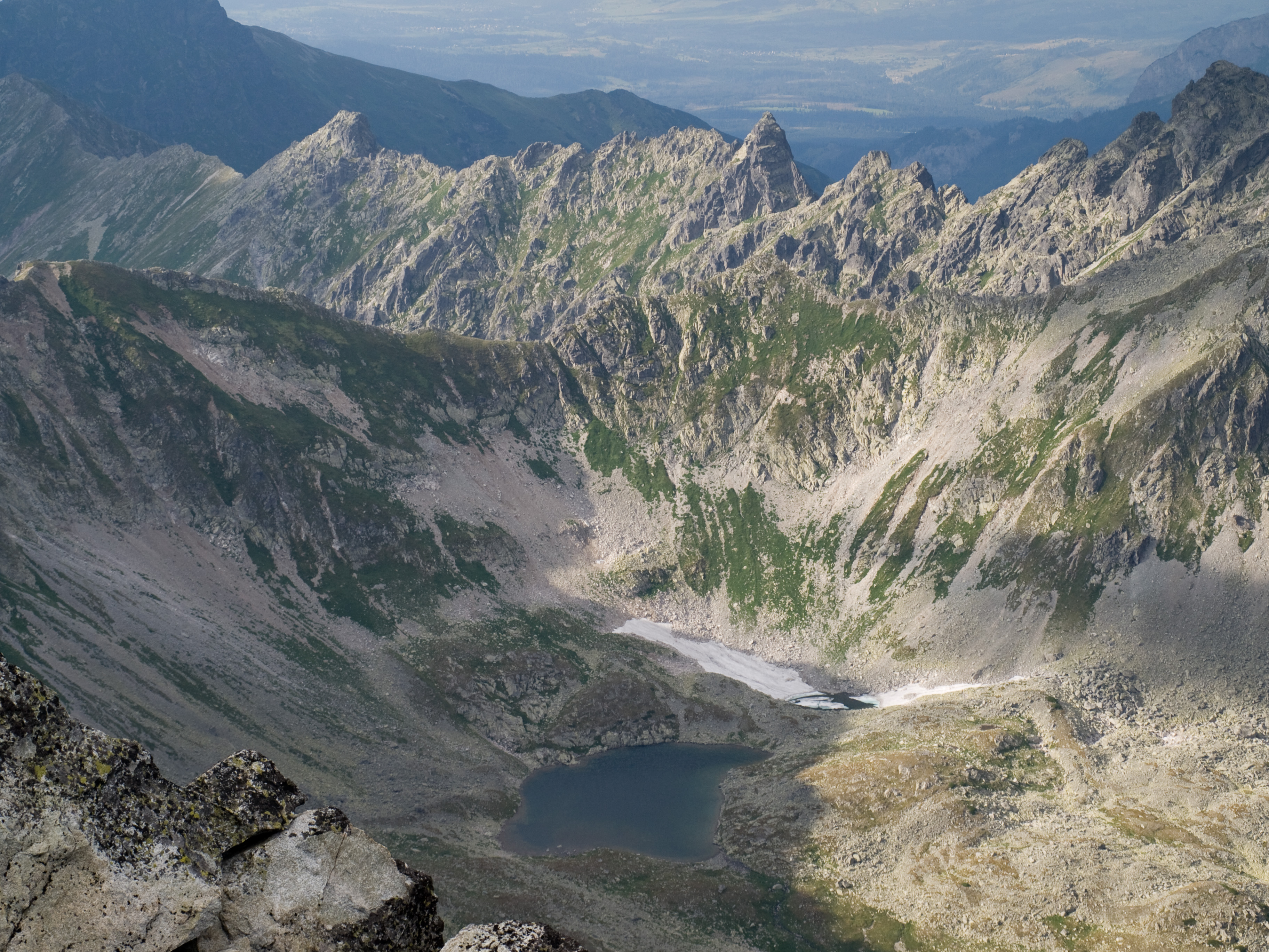 Pusté pleso, Malé Pusté pliesko (partially covered with ice), in the background Javorové veže. View from Bradavica.